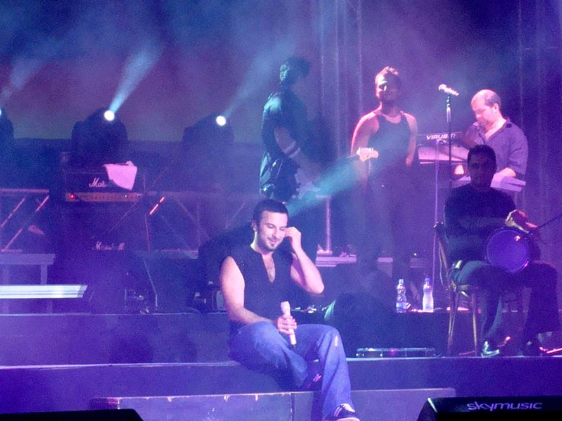 Tarkan in Skopje, Macedonia